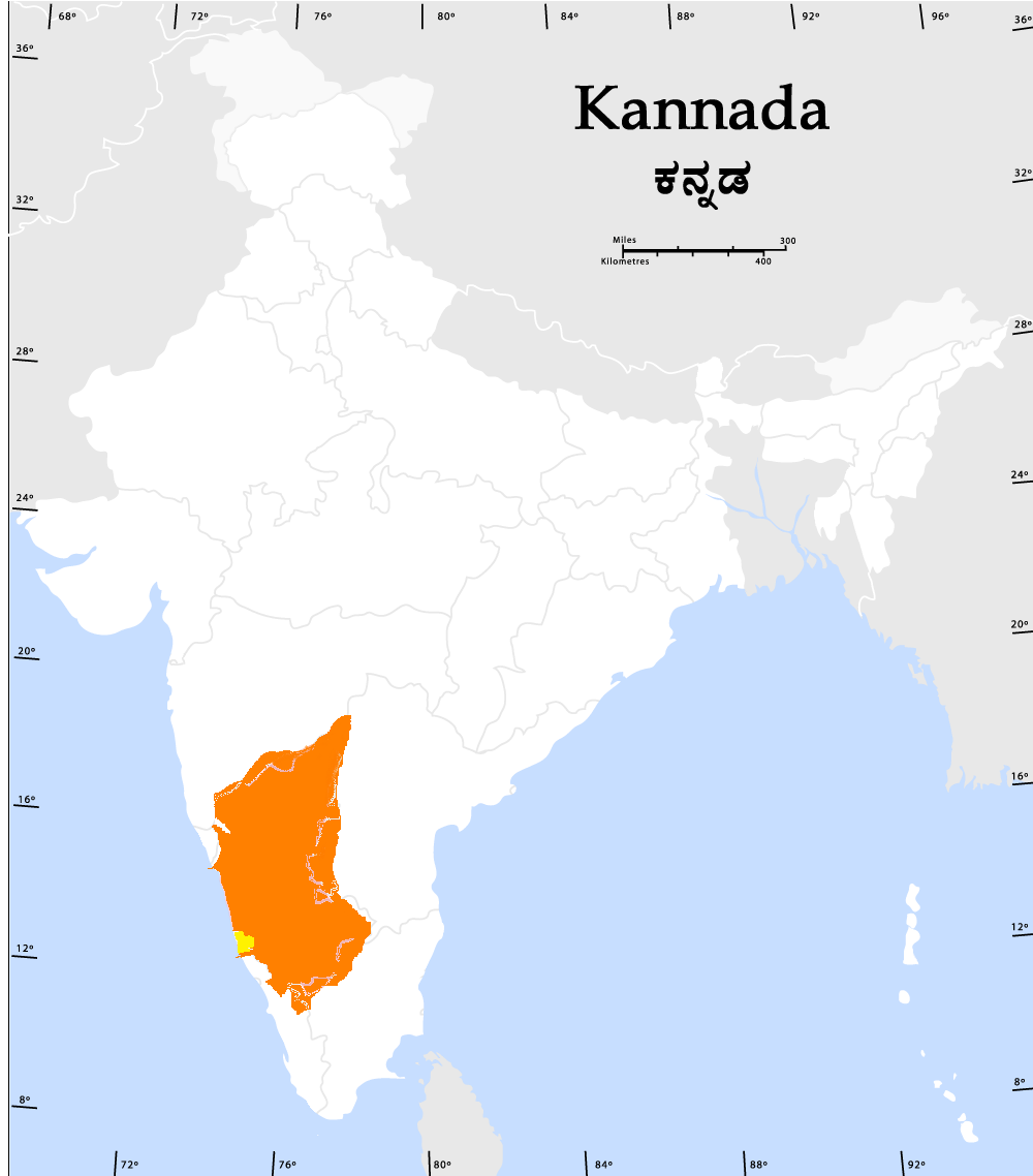 Distribution of Kannada native speakers, majority regions in Orange and minority regions in Yellow.